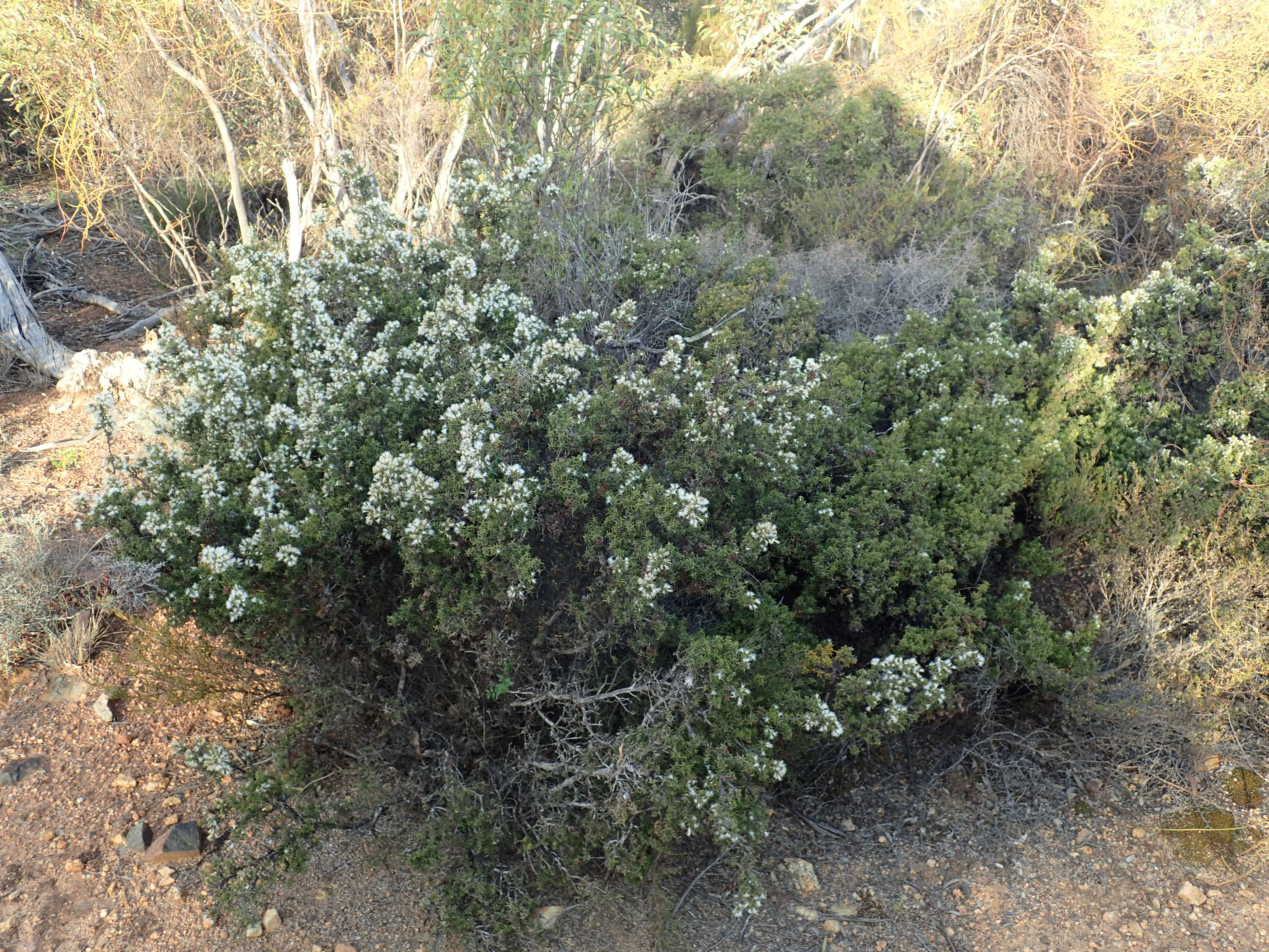 Melaleuca cliffortioides growing near Ravensthorpe, on the road to Hopetoun